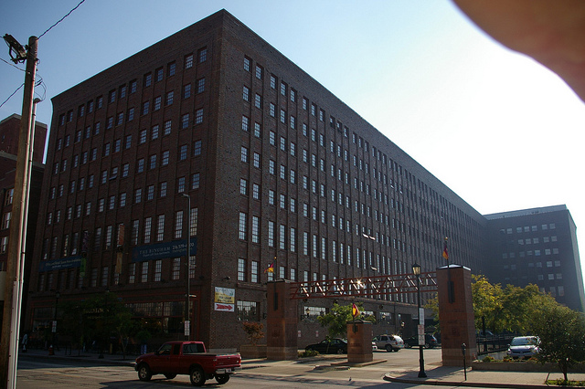 A view of the Bingham Company Warehouse at 1278 West 9th Street, in Cleveland, Ohio. The building, built in 1915, is listed on the National Register of Historic Places.